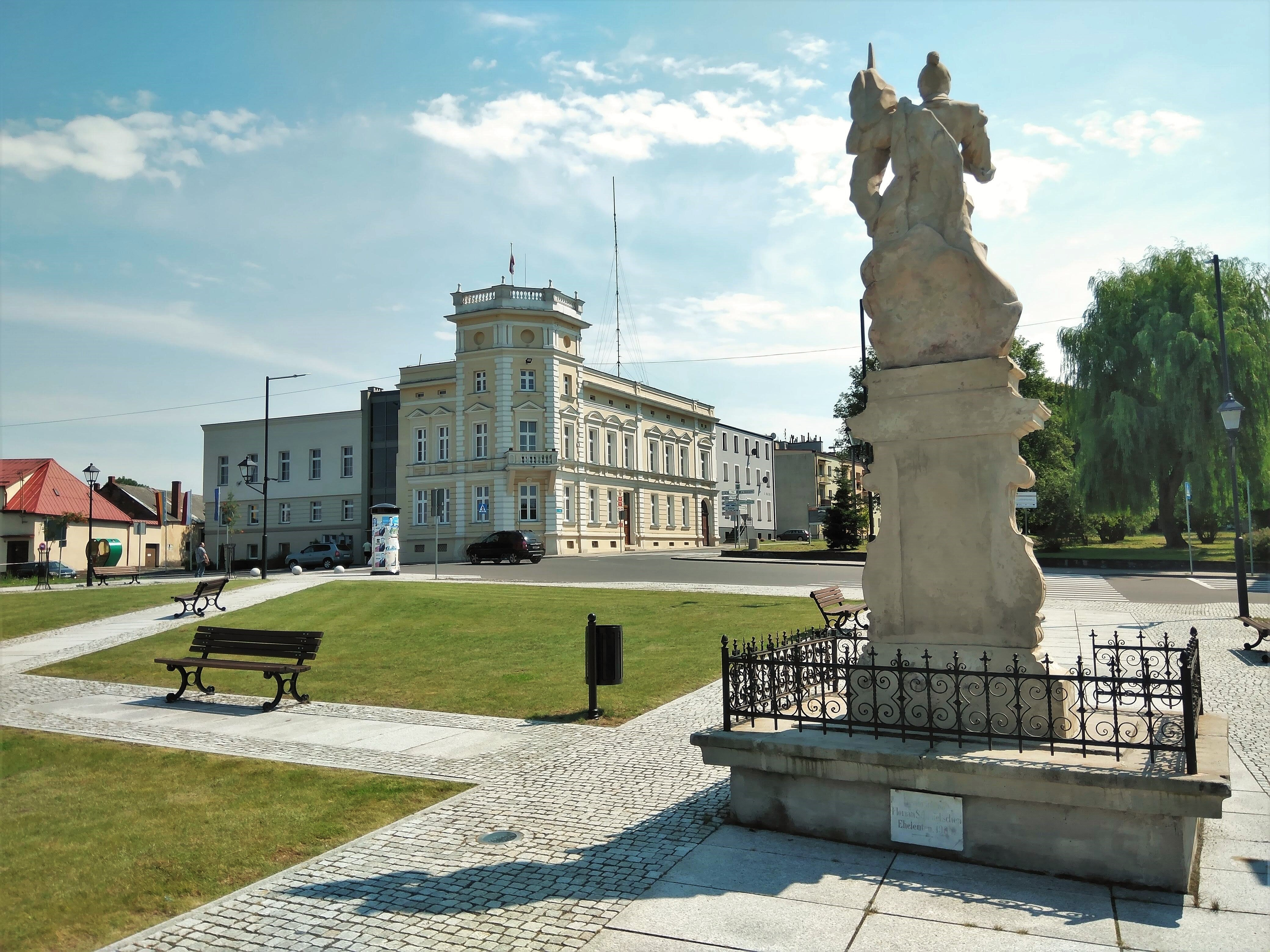 The Saint Florian statue (1734) and the town hall (1887) in Kietrz/Katscher, Upper Silesia, Poland